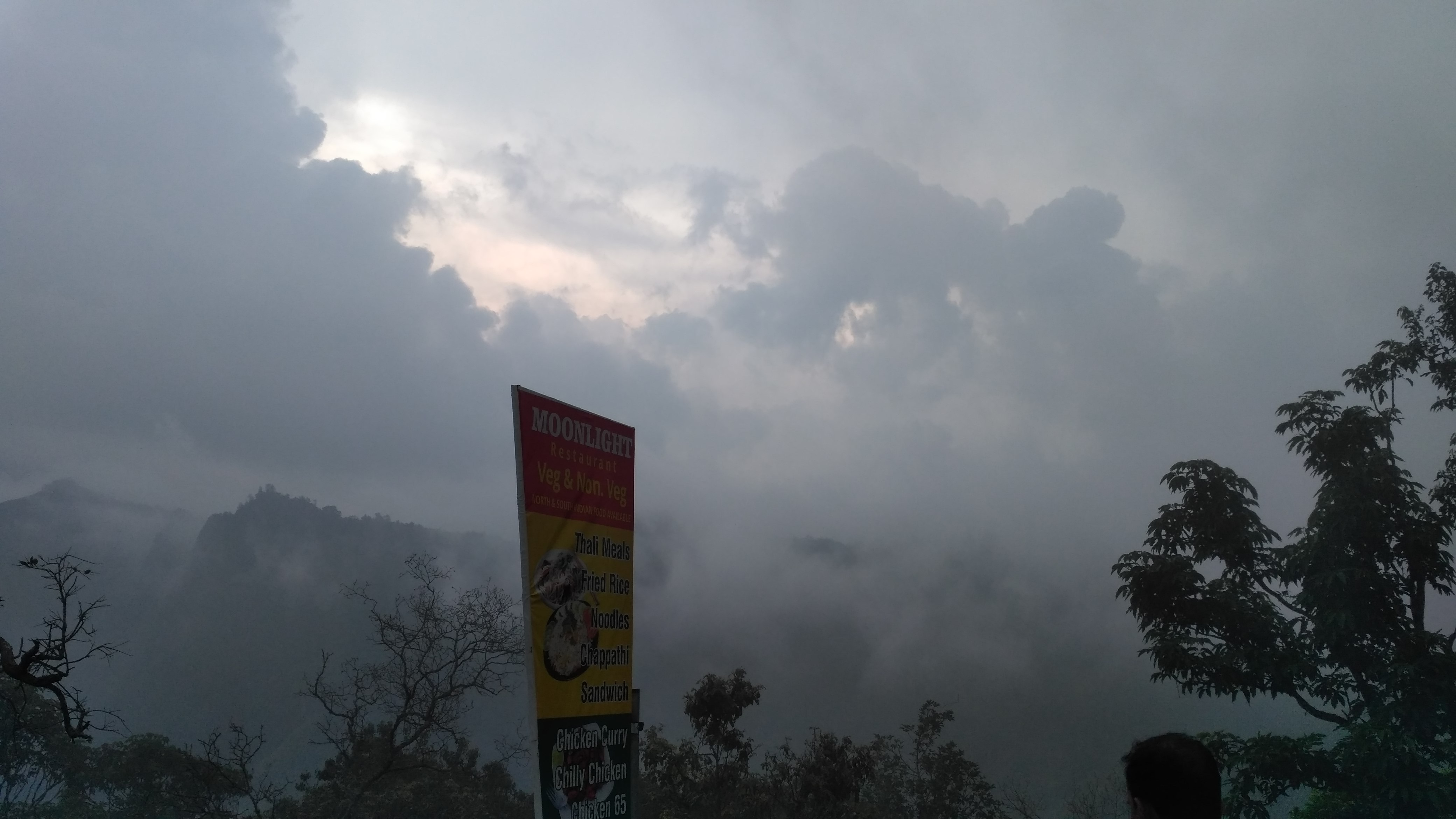 Top Station view point